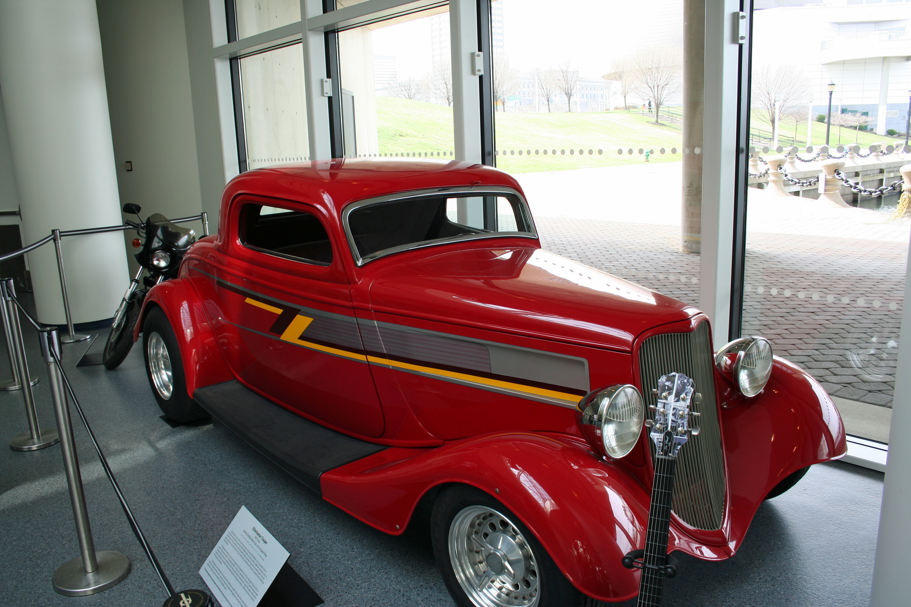 ZZ Top Eliminator at the Rock and Roll Hall of Fame